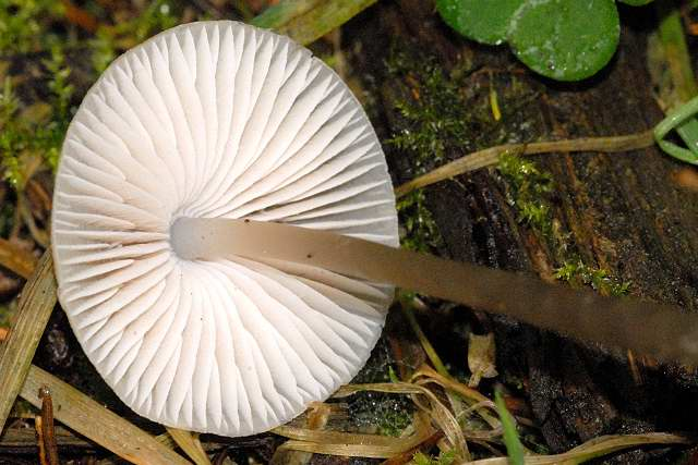 Mycena spec. from Commanster, Belgian High Ardennes. The determination of the species shown in this picture has been verified.